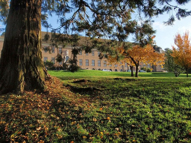 Washington Singer Building, Exeter University "Built in 1931, Washington Singer is now home to the School of Psychology" . Together with many other buildings of the same, early, era of the development of this campus, it was designed by Vincent Harris. "Named after Washington Singer, a generous donor to the University College of the South West of England at the beginning of the development of the Streatham Campus." Washington_Singer